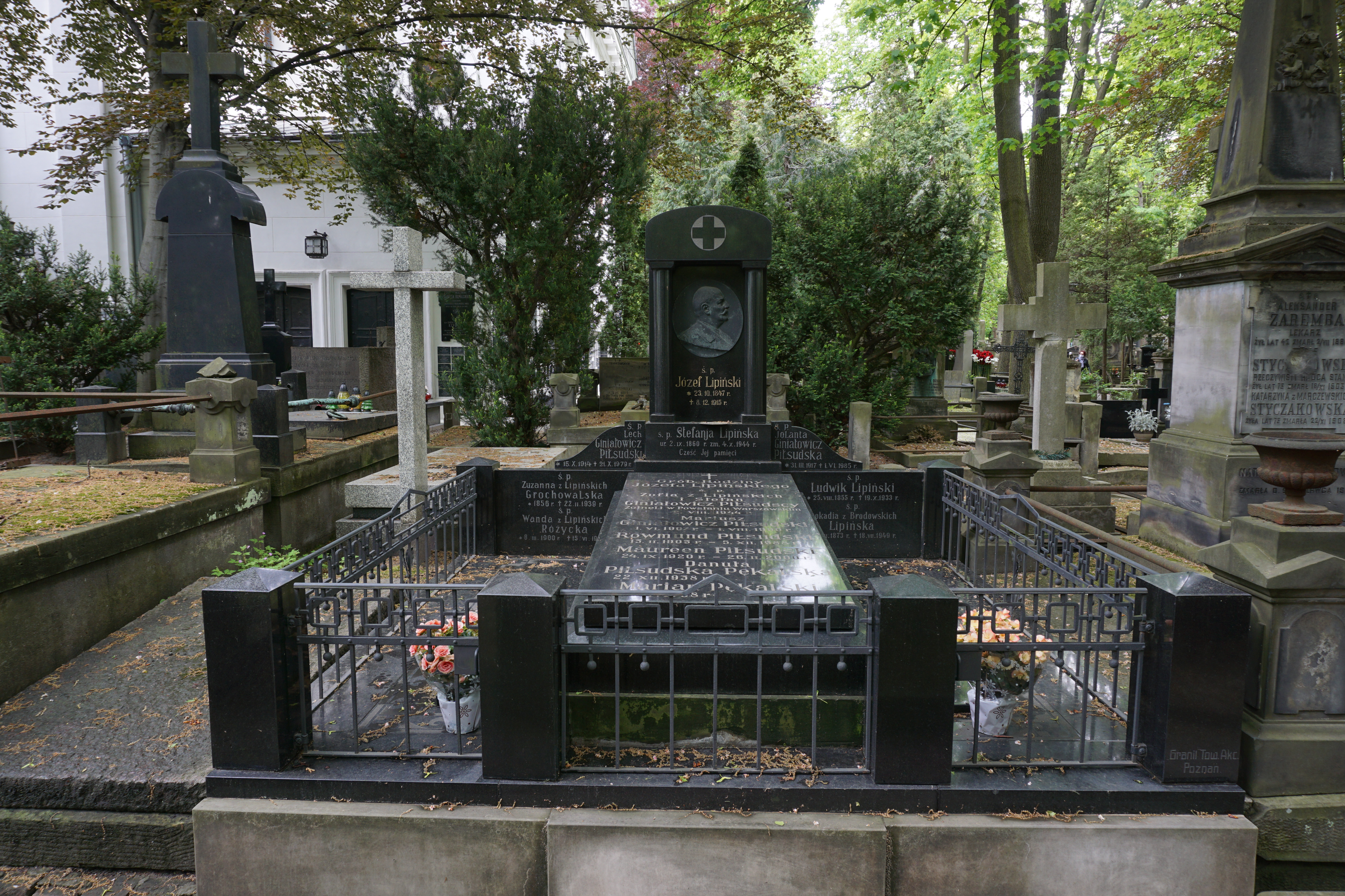 The grave of Rowmund Piłsudski at the Powązki Cemetery (section 11, row 4, grave 23, 24)